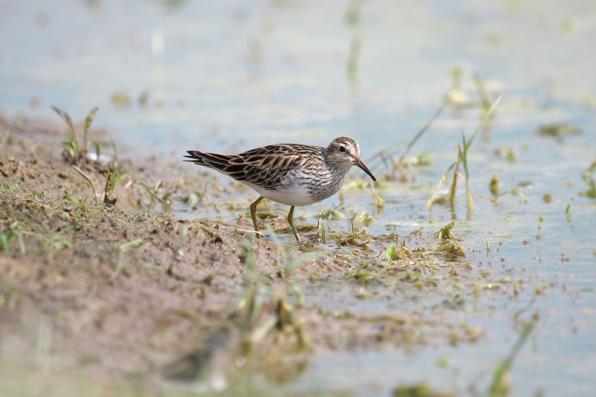 Pectoral Sandpiper